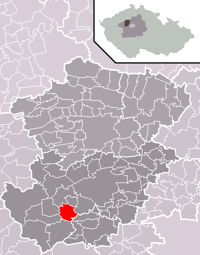 Location of Družec municipality within Kladno District and administrative area of Kladno as a Municipality with Extended Competence.